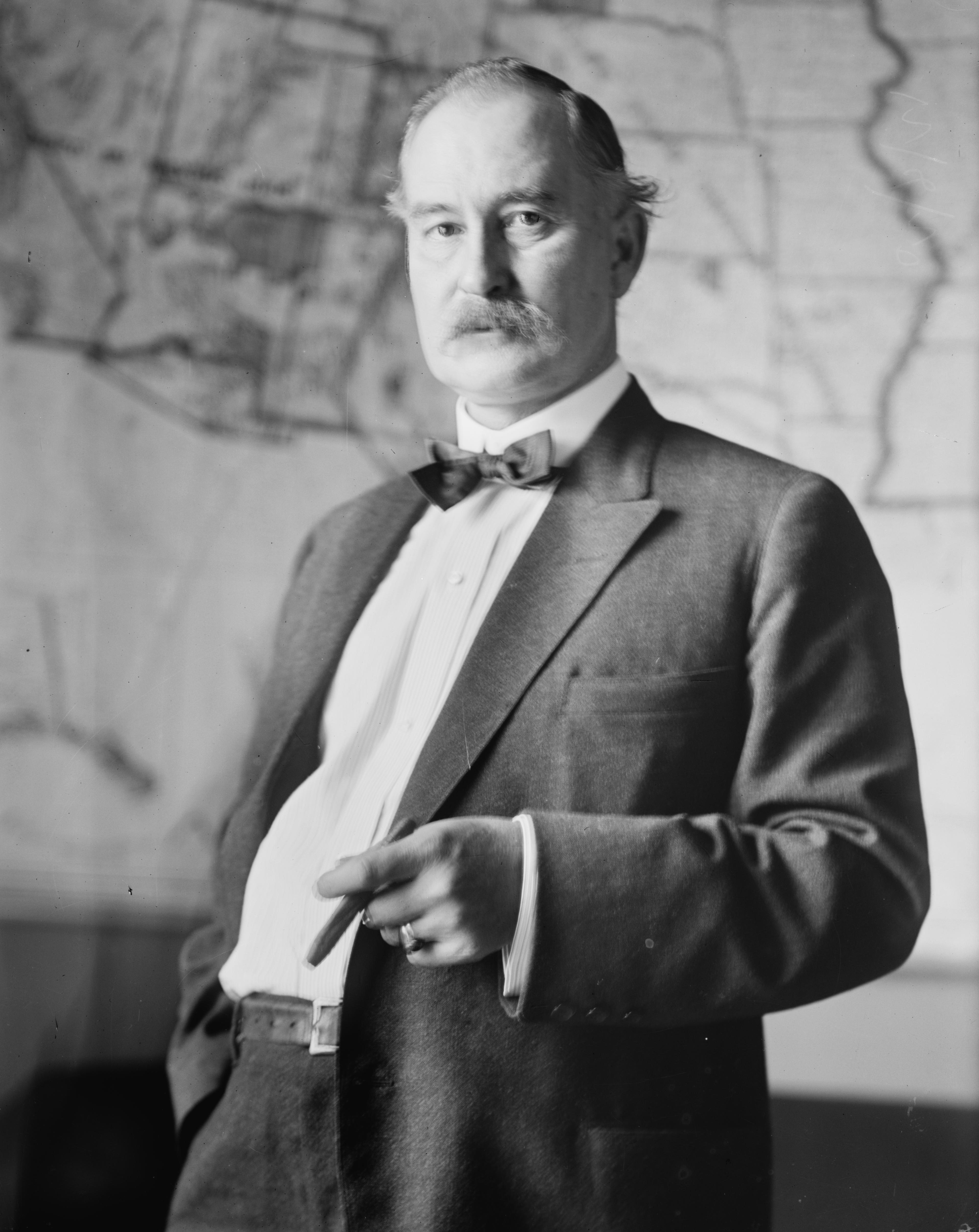 Senator Albert B. Fall